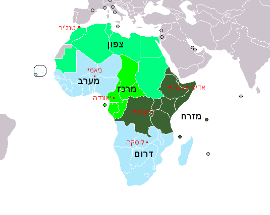 UNECA (United Nations Economic Commission for Africa) regions and regional headquarters (in Hebrew)